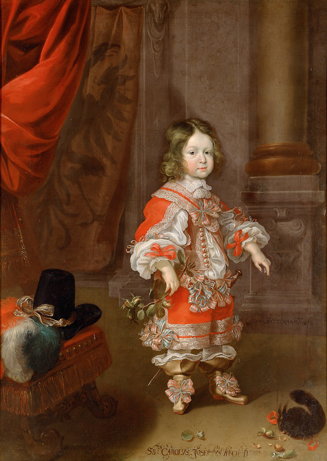 Archduke Charles Joseph (1649-1664) with squirrel, aged four to five years